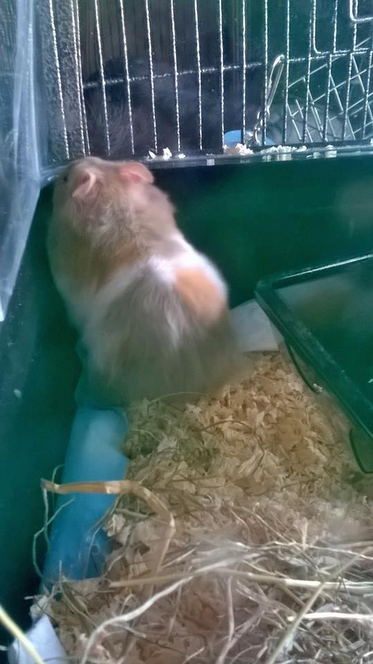 Purin, my 9 week old Dove Banded Tortie.